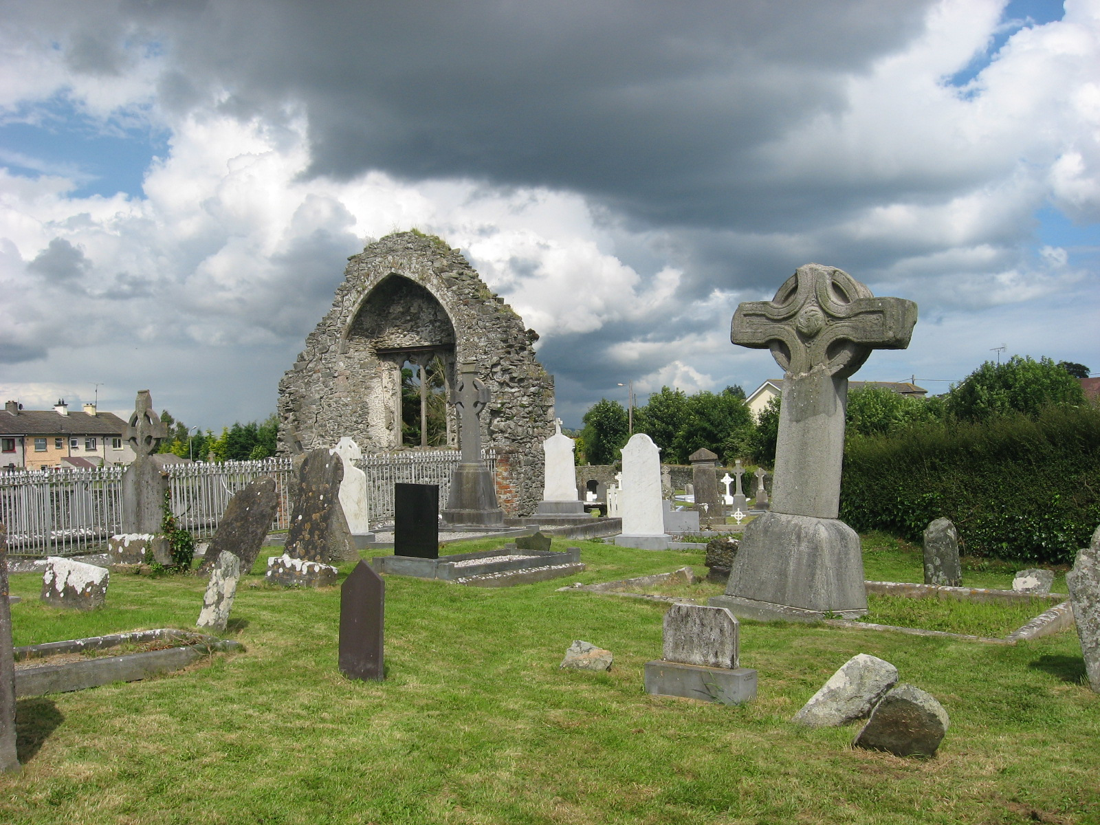 Church and High Cross at Dromiskin, Co. Louth East gable of the ruined medieval church and Early Christian period head of a High Cross mounted on a modern shaft and base.